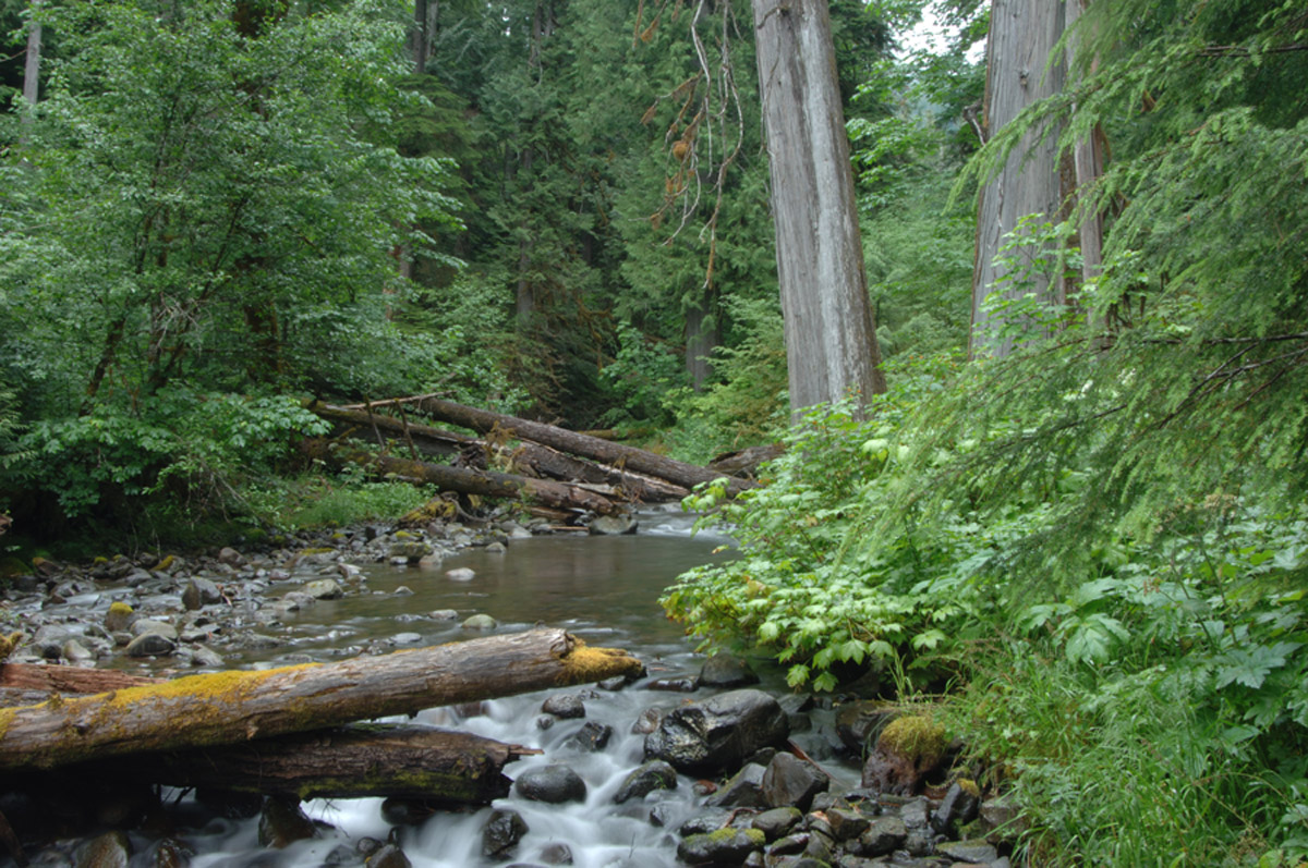 Image of the Lookout Creek stream large woody debris.